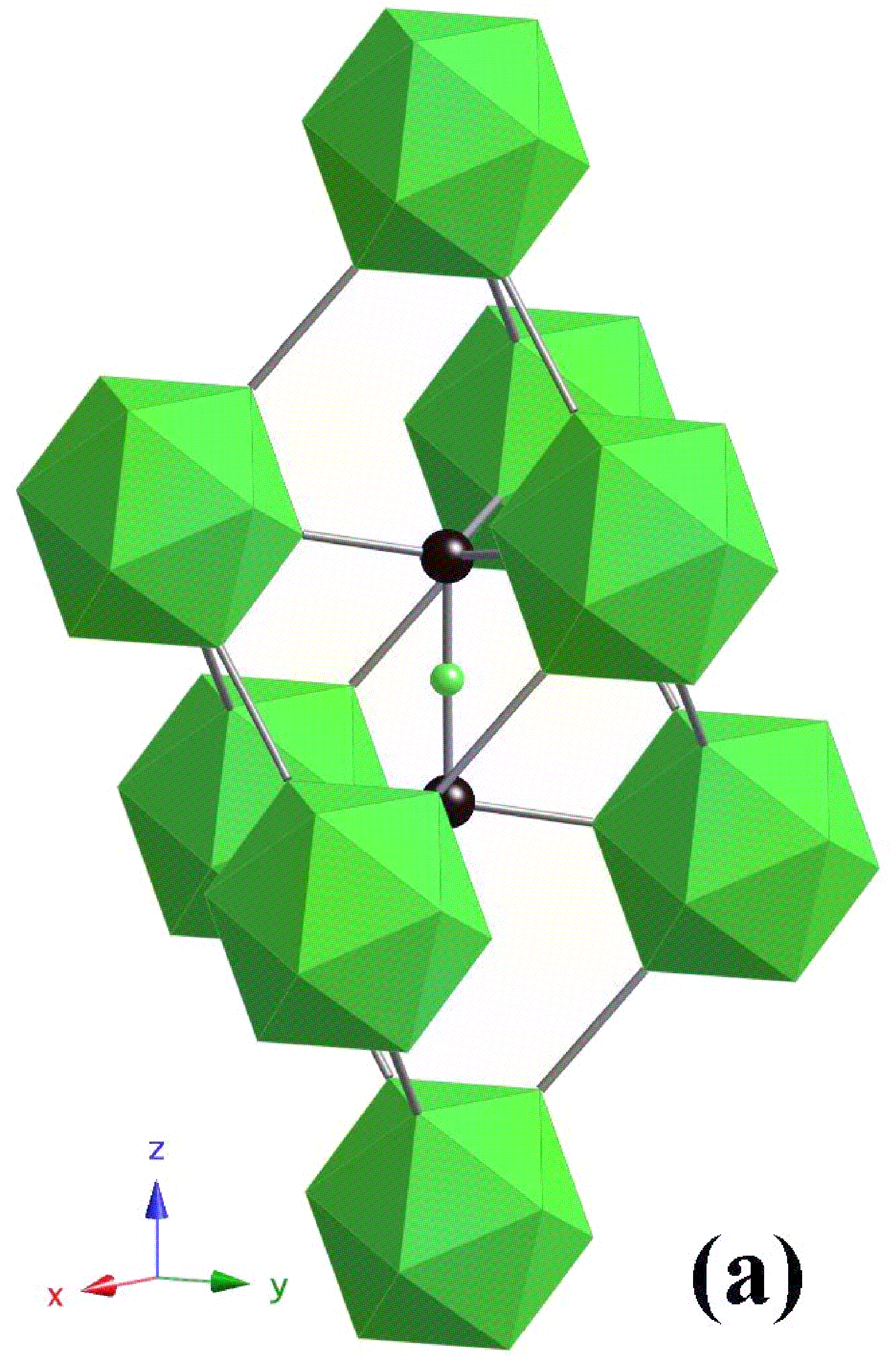 Structure unit of B4C